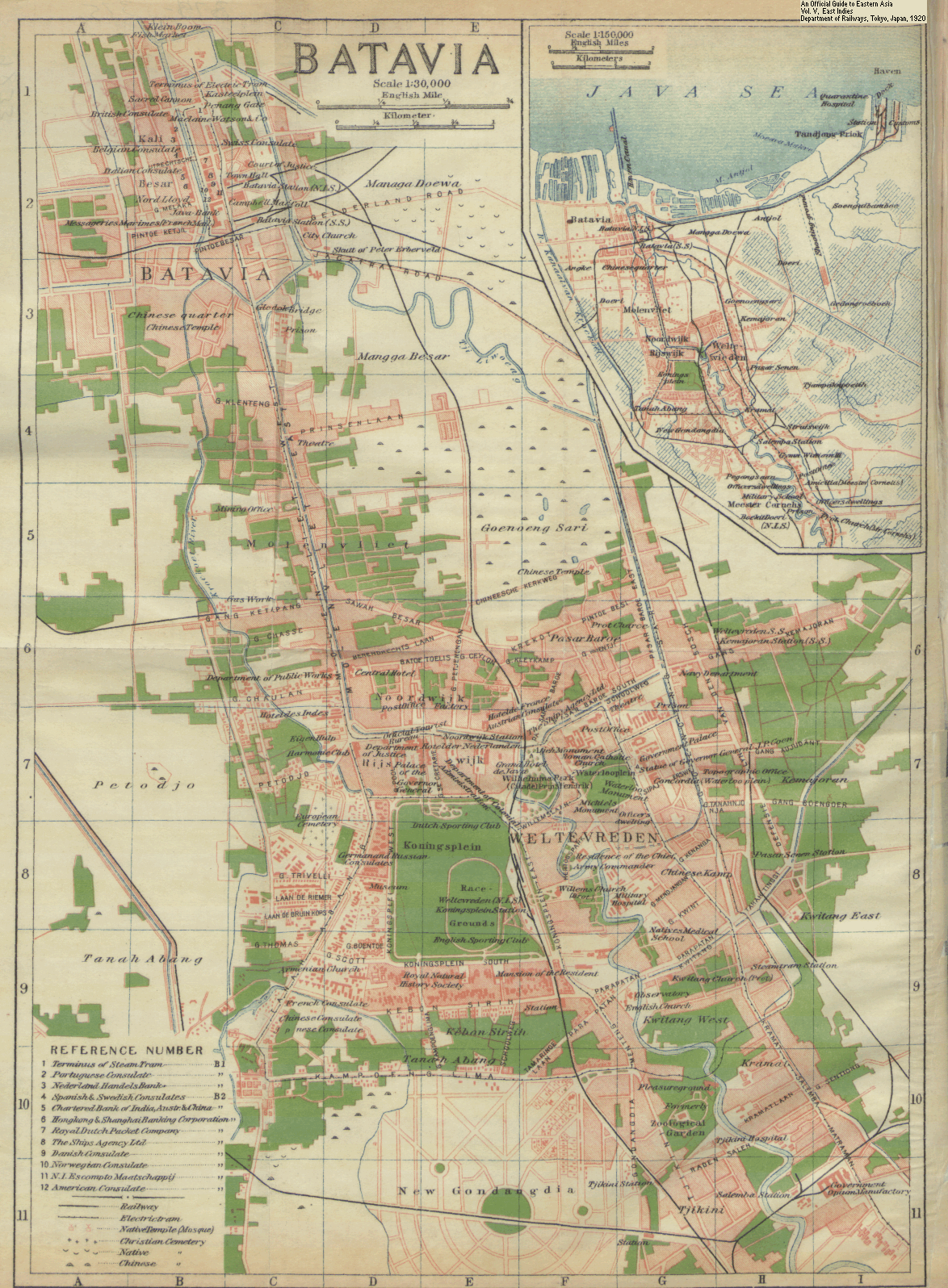 Map of Batavia